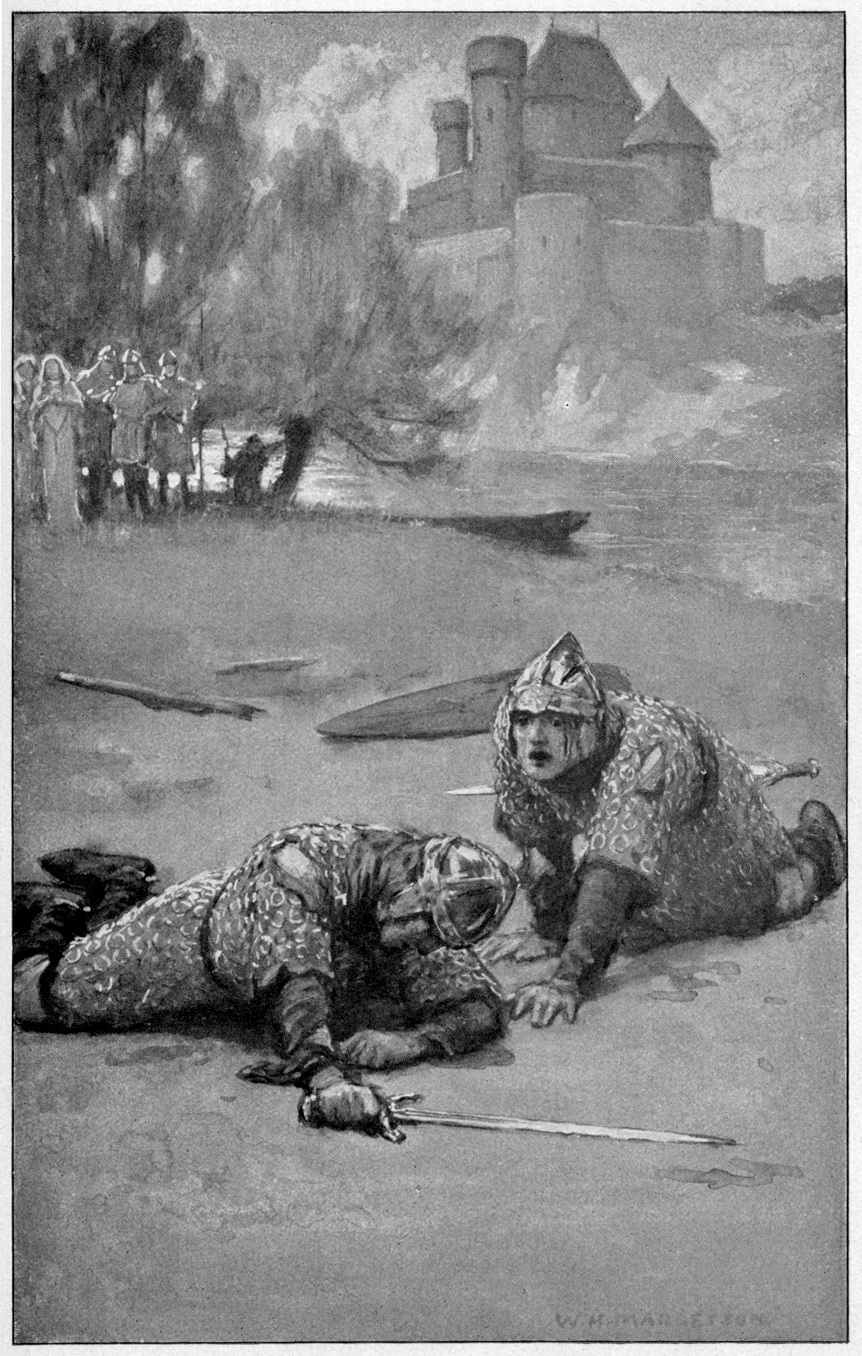 William Henry Margetson's illustration for Legends of King Arthur and His Knights by Janet MacDonald Clark.